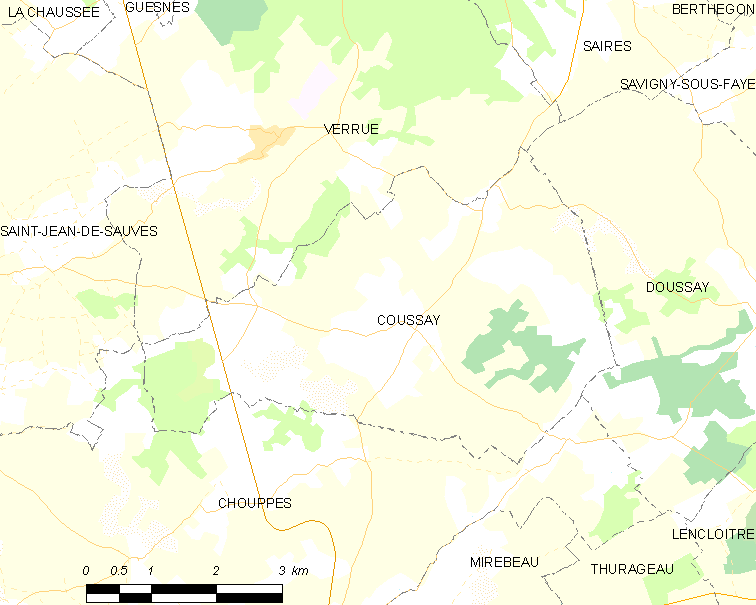 Map of French municipality Coussay